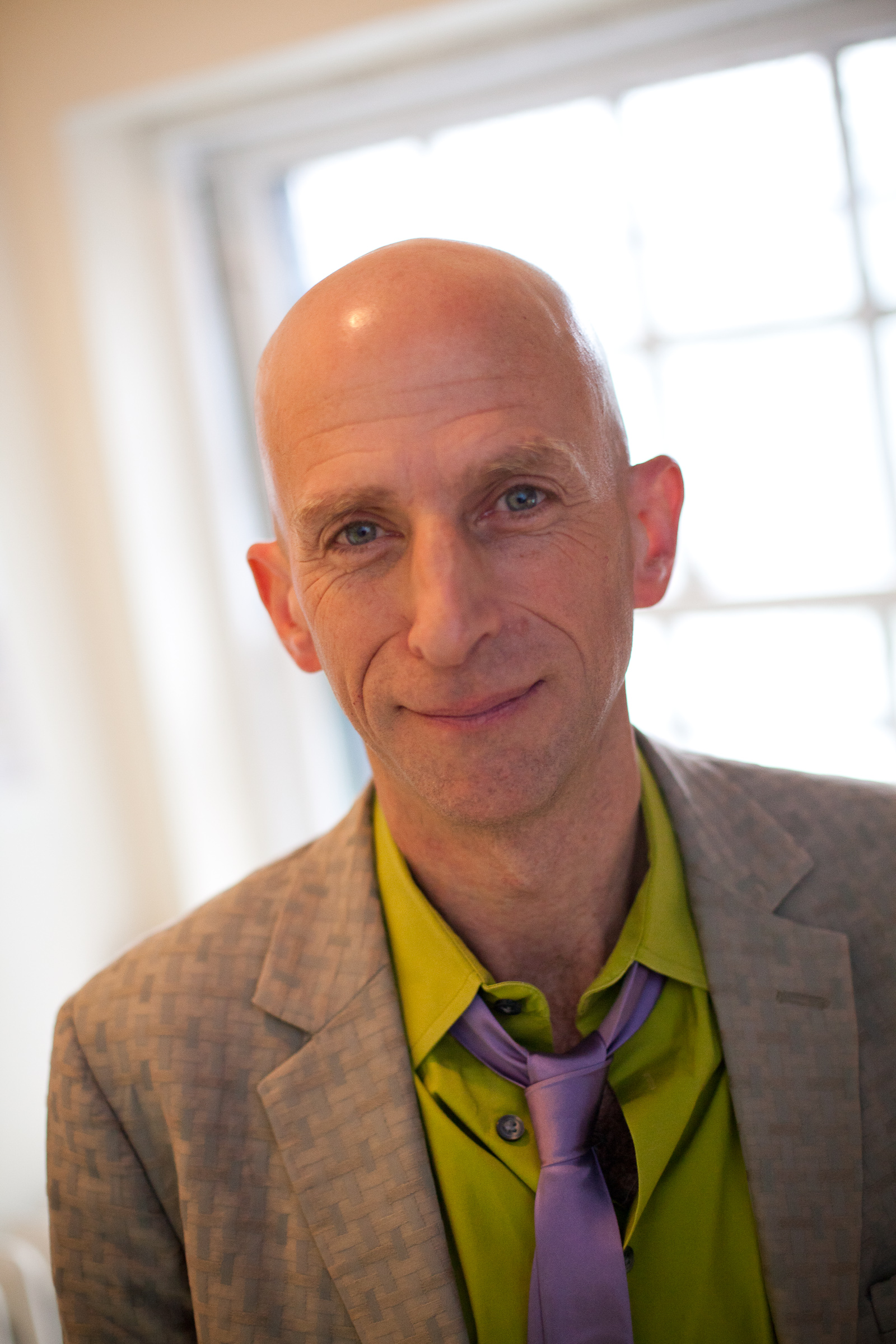 Robert Neuwirth photo by Thatcher Cook for PopTech